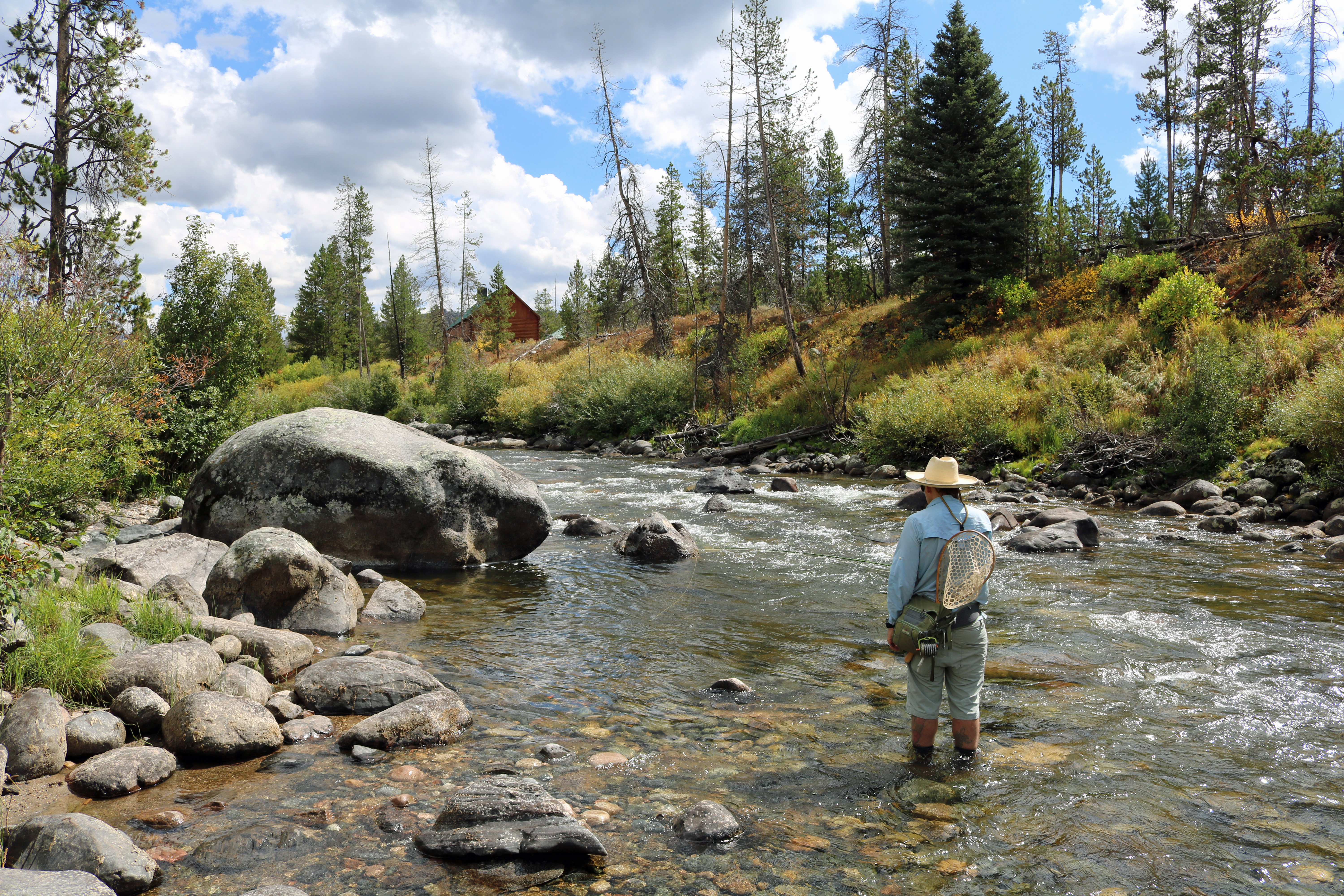 A view of the Elk River in Routt County, Colorado. This view is taken along Routt County Road 64, also called Seedhouse Road.